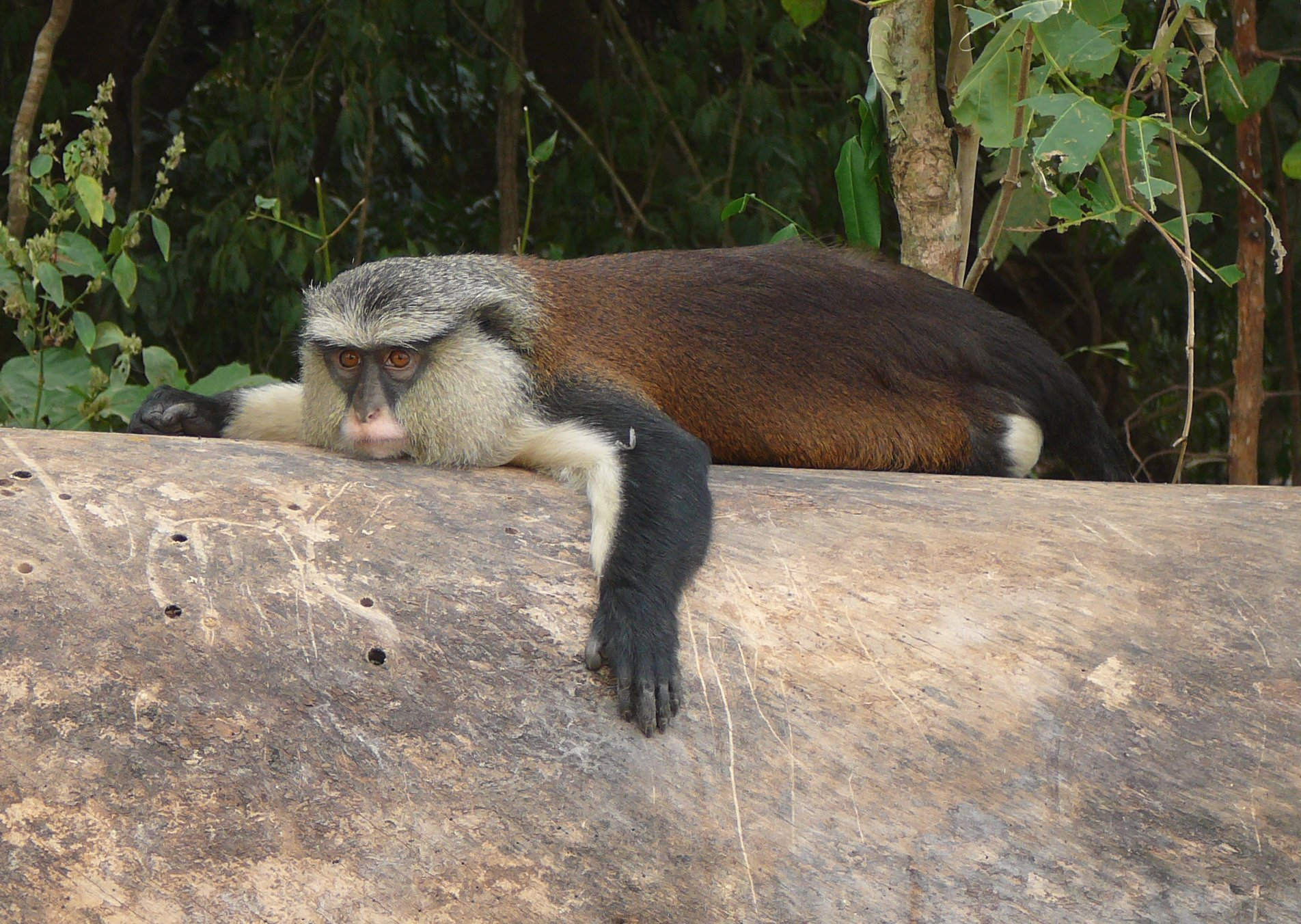 Cercopithecus mona mona in Tafi Atome (Ghana)